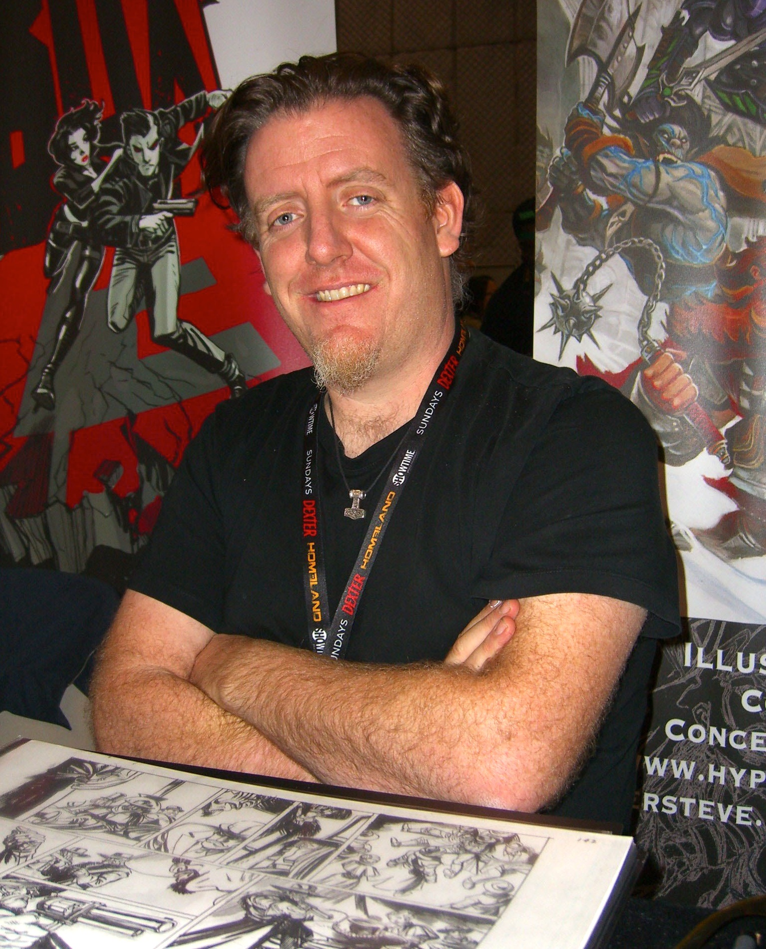 Comics creator Steve Ellis during an October 16, 2011 appearance at the New York Comic Con in Manhattan. This photo was created by Luigi Novi. It is not in the public domain, and use of this file outside of the licensing terms is a copyright violation.